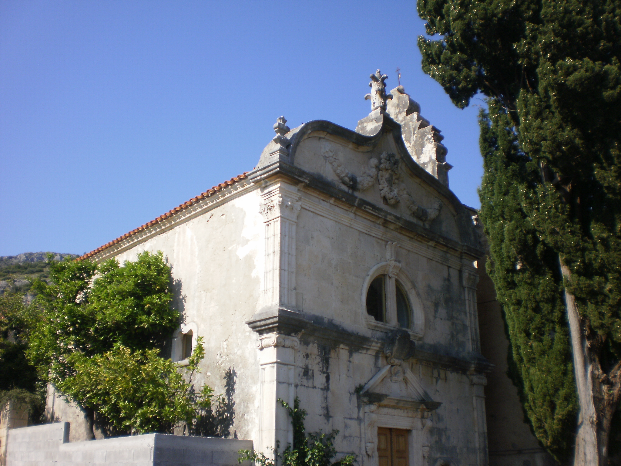 Holy Trinity church, Kućište